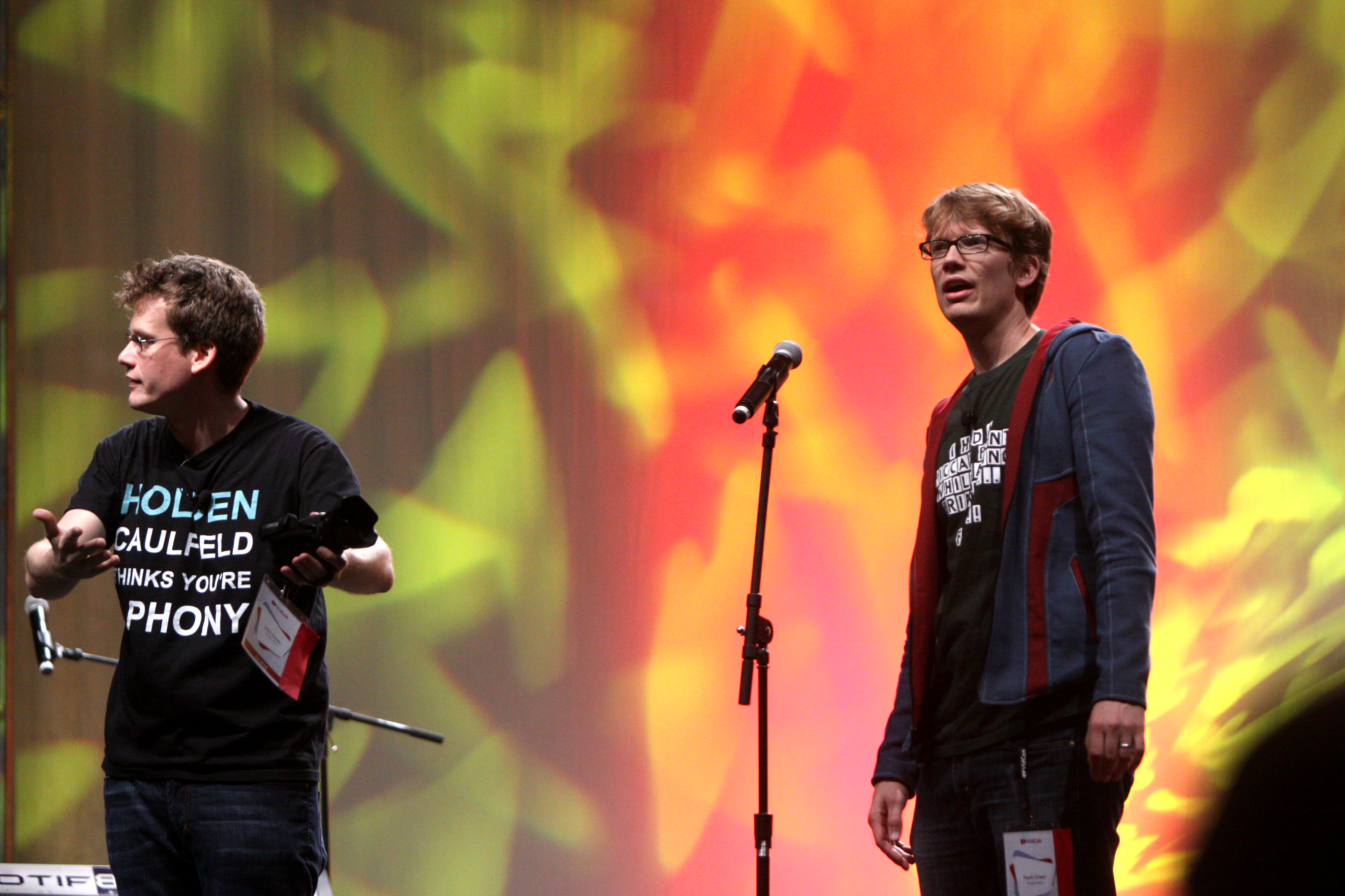 Hank & John Green performing at VidCon 2012 at the Anaheim Convention Center in Anaheim, California.